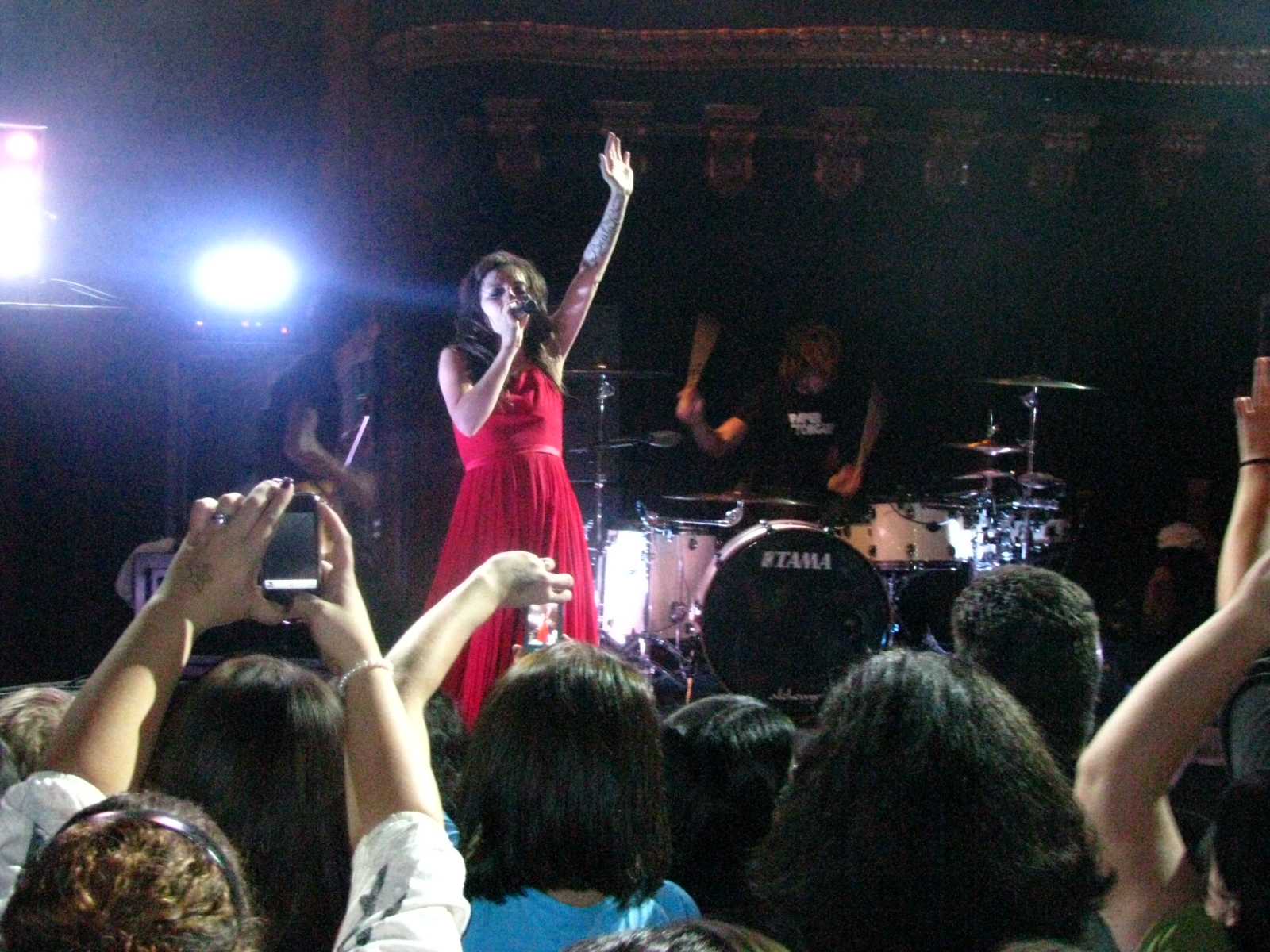 Flyleaf performing at The Great American Music Hall in San Francisco, CA